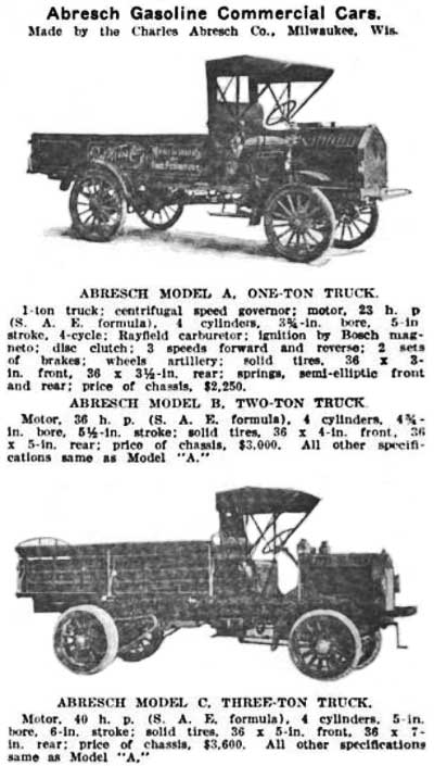 1911 Abresch-Cramer truck ad, presenting Model A 1 tn, Model B 2 tn, and Model C 3-4 tn. Layout was very similar, with 4 cylinder engines of 23, 36, and 40 HP, respectively, and shaft drive to the countershaft. From there, two chains went to the rear wheels. Model C featured more massive wheels, optionally with twins at the rear axle. Typical Abresch-Cramer customer was a brewer or bottler. The twin tire option is advertised in 1911 Abresch-Cramer Model C 3 tn Brewery Wagon.jpg.